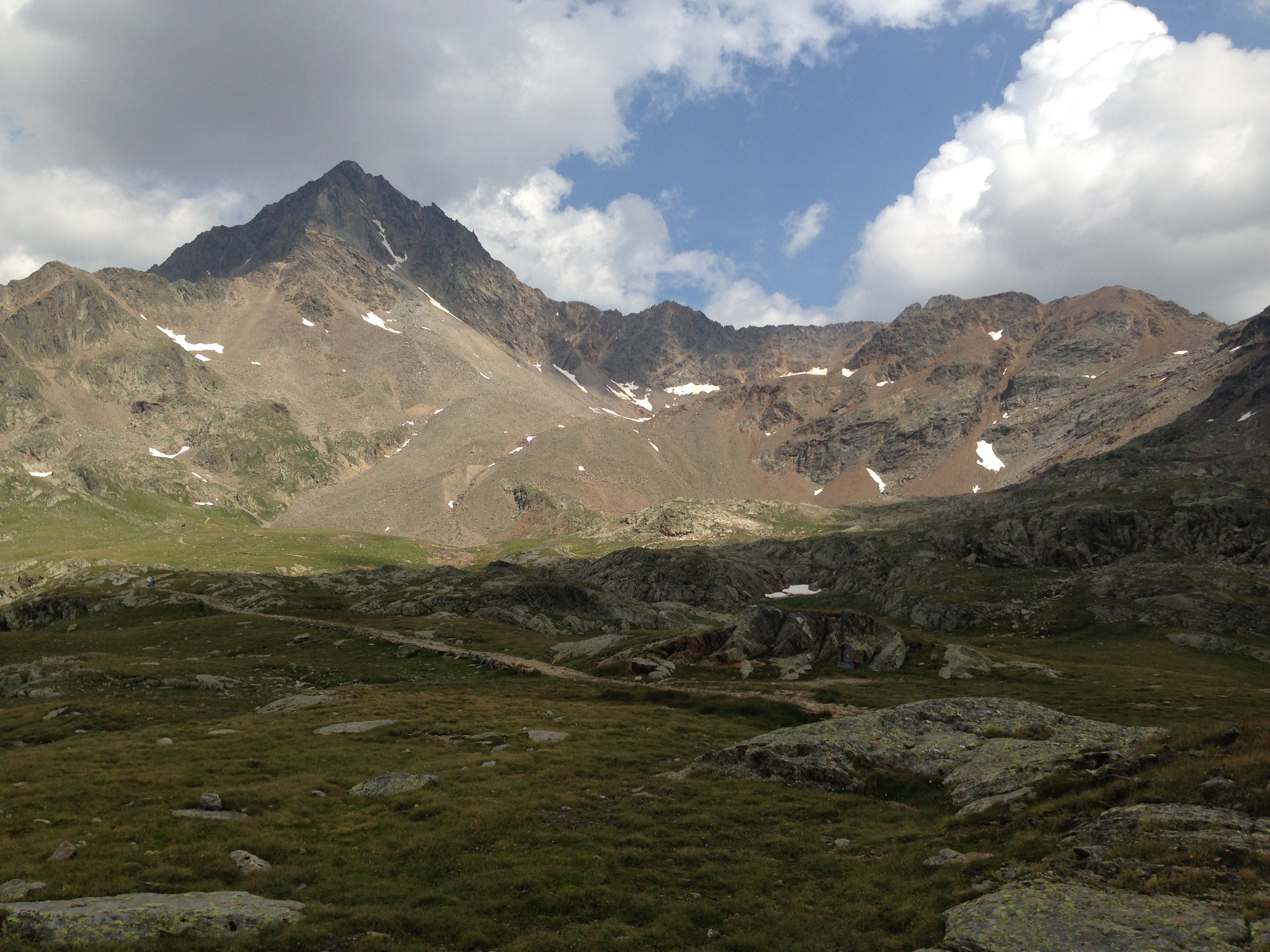 23030 Valfurva, Province of Sondrio, Italy